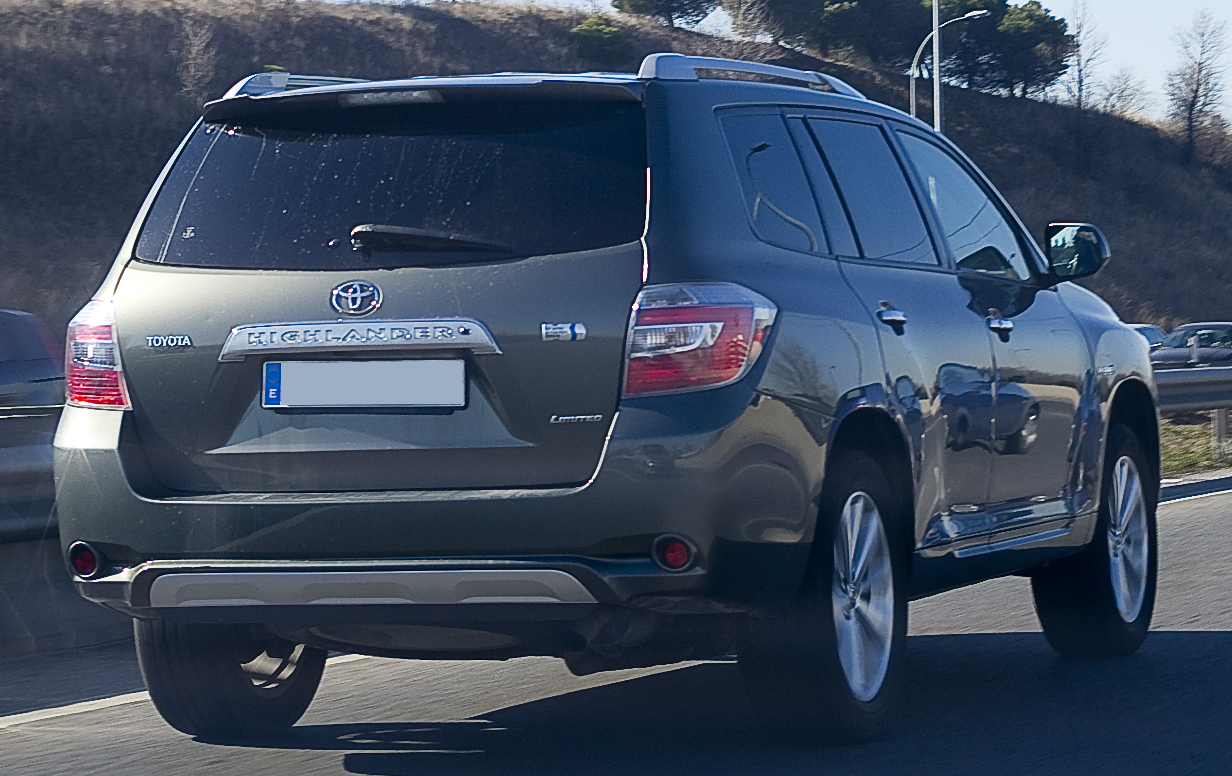 2009 Toyota Highlander Hybrid Limited